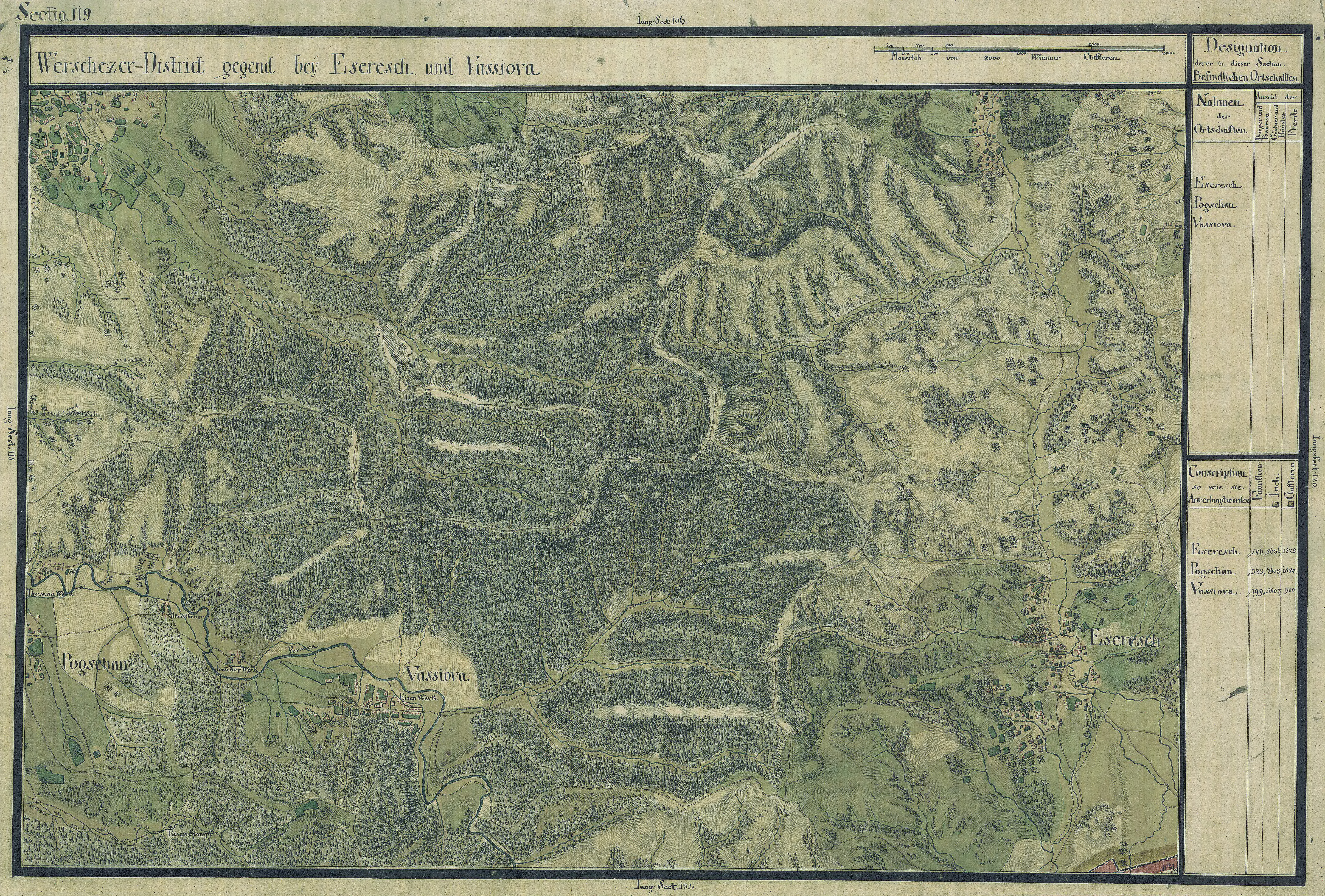 The Banat region in the cadastral maps: Josephinische Landesaufnahme, 1769-72. Josephinische Landaufnahme pg119